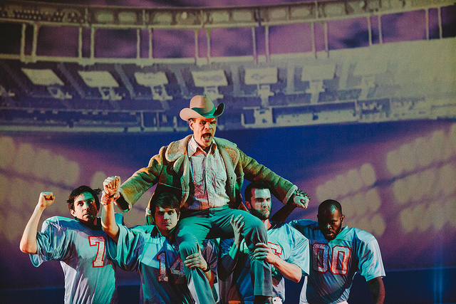 L to R: Joey LePage, Hunter Frederick, Gary Ramsey, Patrick Mulryan, Emmanuel Elpenord in Bum Phillips: All-American Opera by Peter Stopschinski (music), Kirk Lynn (libretto), and Luke Leonard (concept and direction)